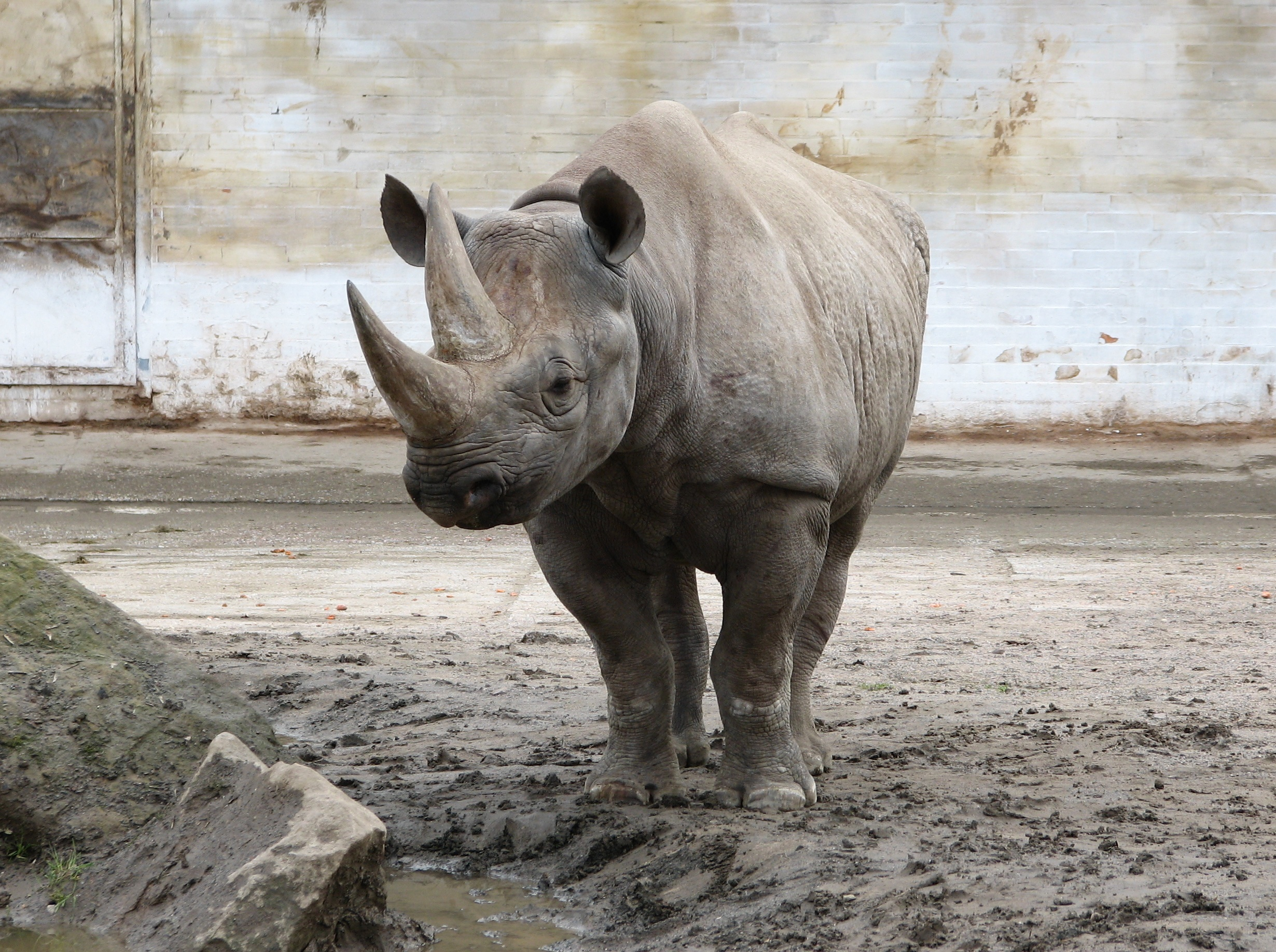 Black Rhino, ZOO Dvůr Králové, Czech Republic